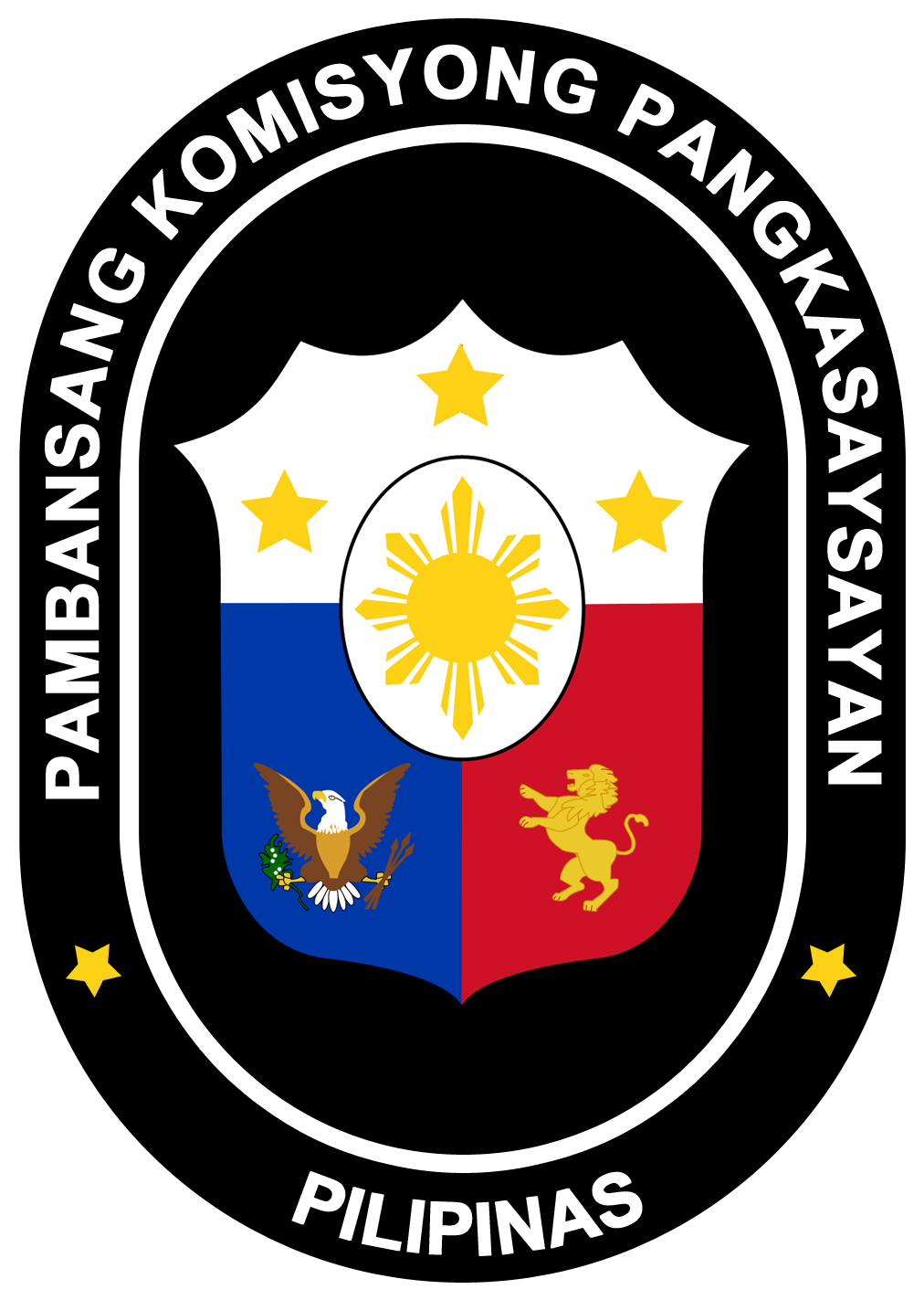 National Historical Commission of the Philippines seal on Historical Markers.Filipino: Sagisag ng Pambansang Komisyong Pangkasaysayan ng Pilipinas sa mga Palatandaang Makasaysayan.